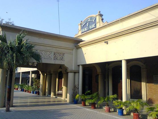 This is the front one sided view of Old Building of Hailey college of Banking and Finance